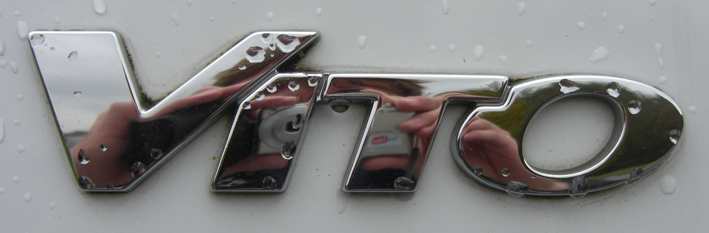 Description: Vito Schriftzug Source: Matthias Other Version(s)